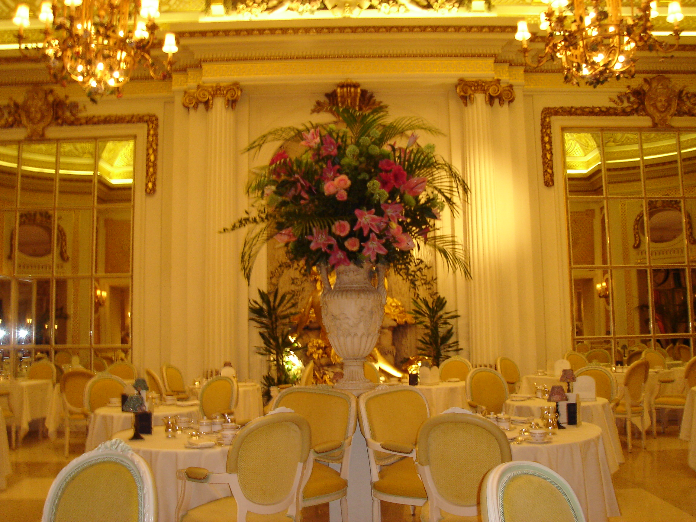 Dining room at the Ritz Hotel, London